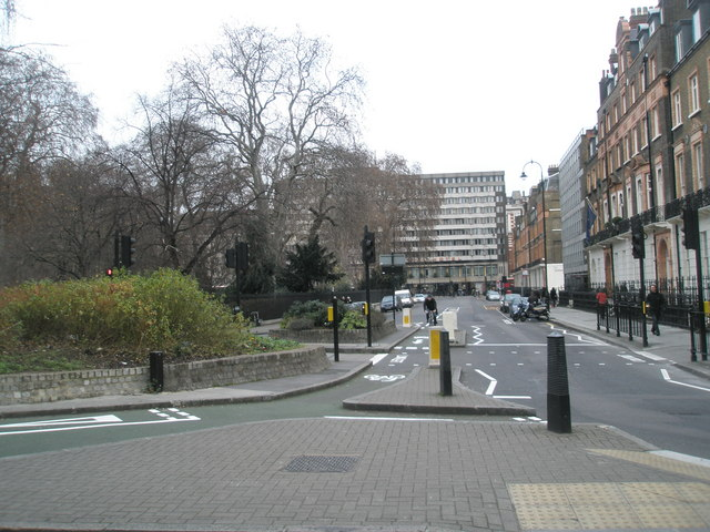 Looking down Russell Square towards Southampton Row